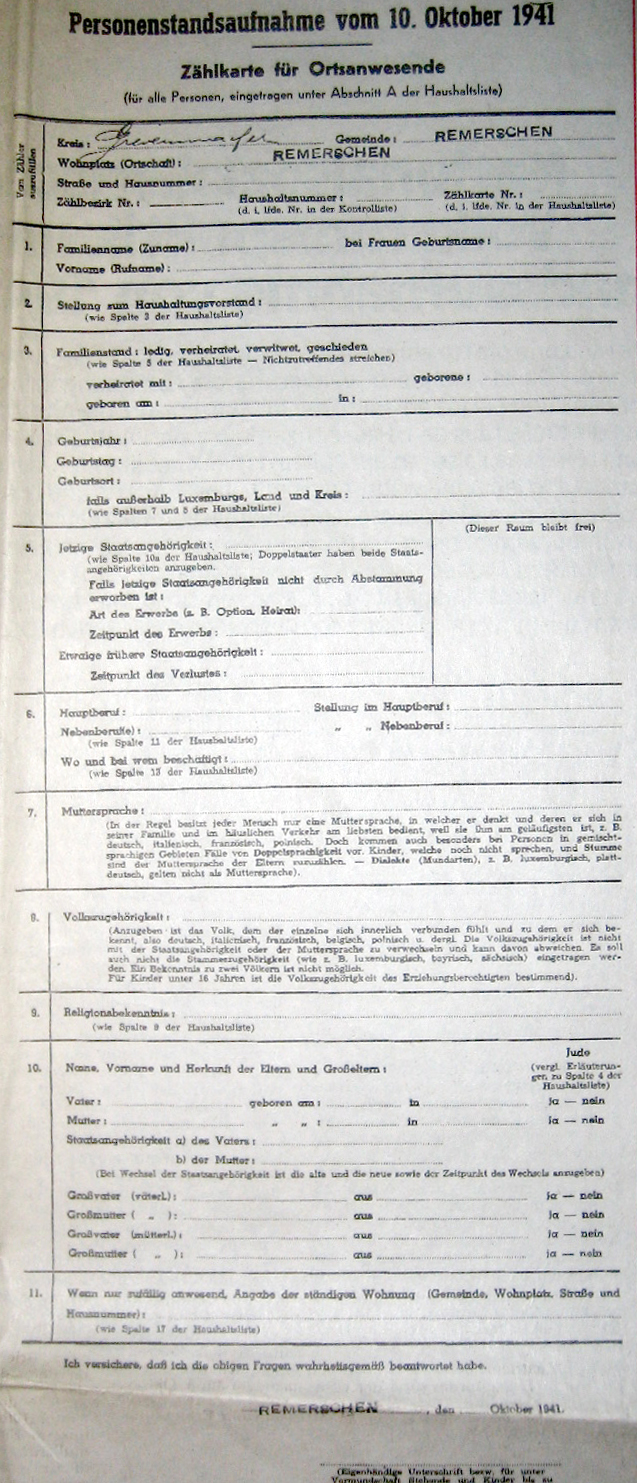 10 October 1941 census in Luxembourg under occupation from Nazi Germany